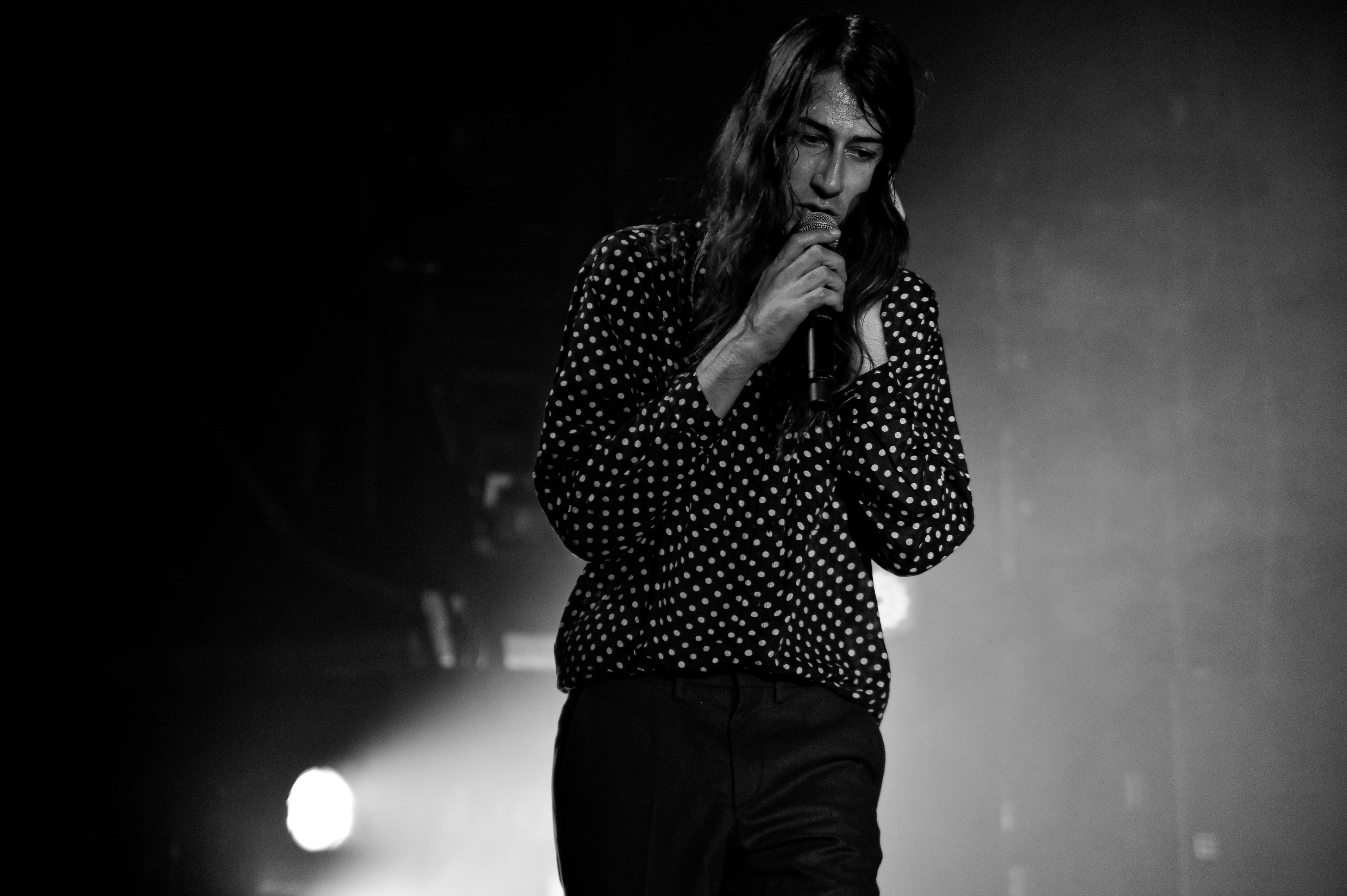 The musician Kindness performing at the Inrocks Festival in 2012.